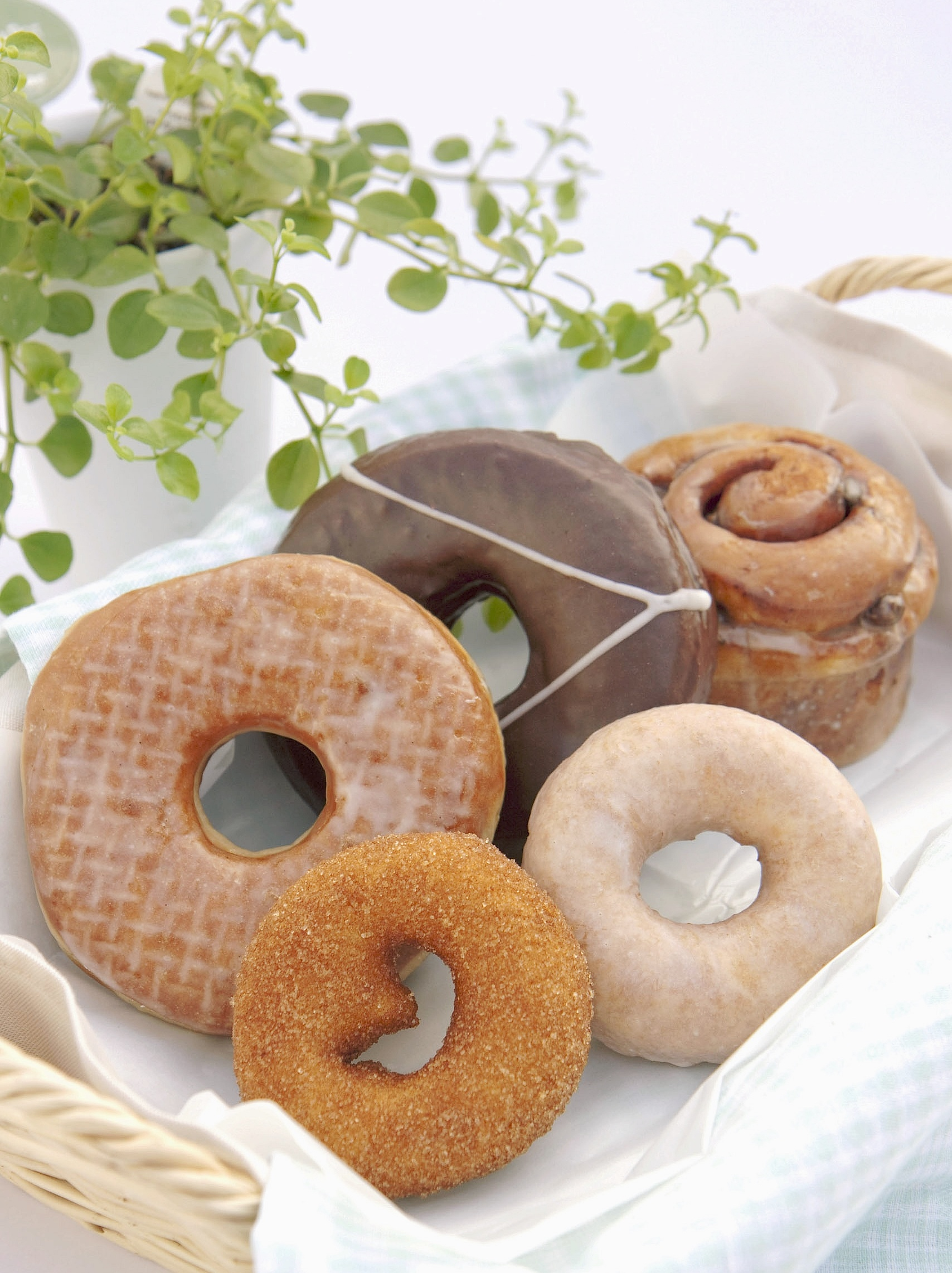 2010-05-21 DOUGHNUTS of DOUGHNUT PLANT TOKYO